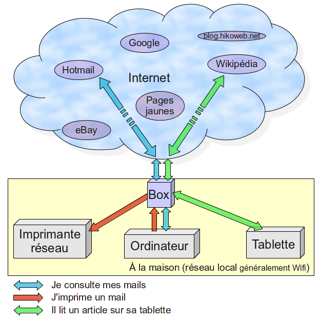 Simplified diagram of a local network communicating with the Internet